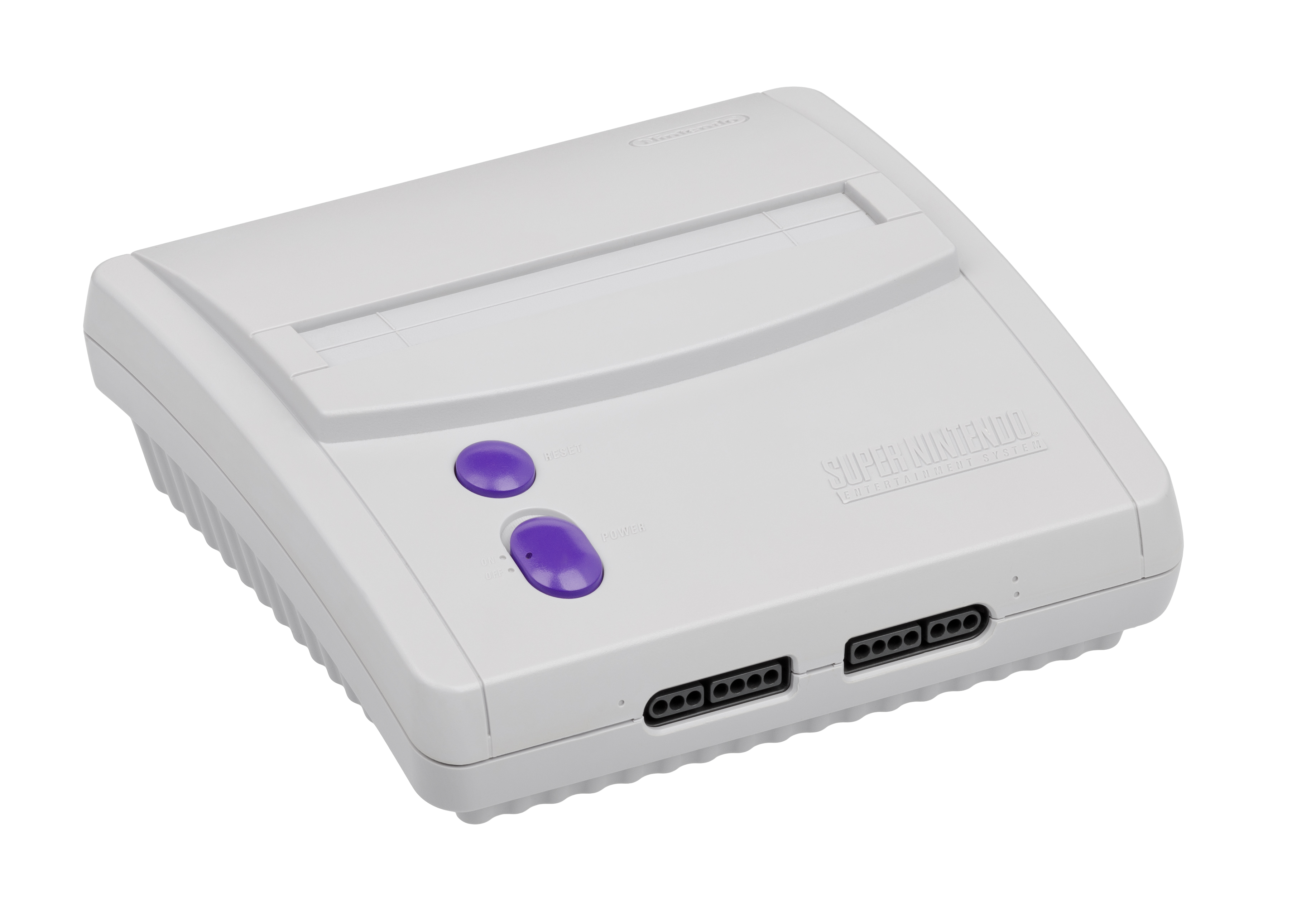 The revised Super Nintendo Entertainment System (also known as the Super NES & SNES), a fourth generation video game console released by Nintendo in North America in 1997. This is a cost-reduced and streamlined version of the original, but also removed advanced A/Z options like S-Video and RGB support. These features can be restored via modding.